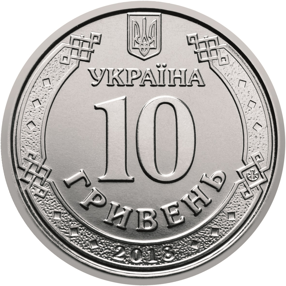 Ukrainian 10 hryvnia coin of 2018 series, averse. Zinc alloy with galvanic coating, 23.5 mm in diameter, weights 6.4 g, reeded edge.